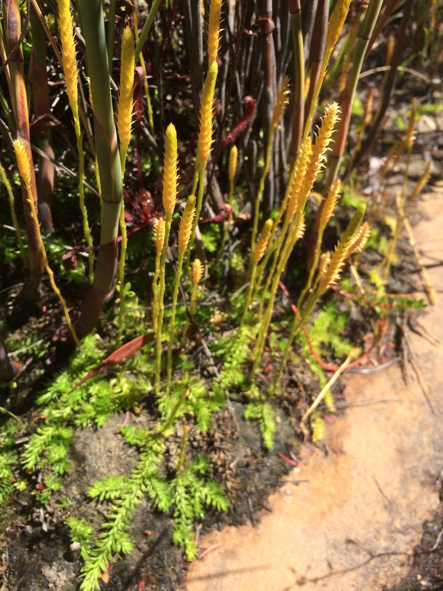 Pseudolycopodiella caroliniana, West Coast DC, , WC, ZA